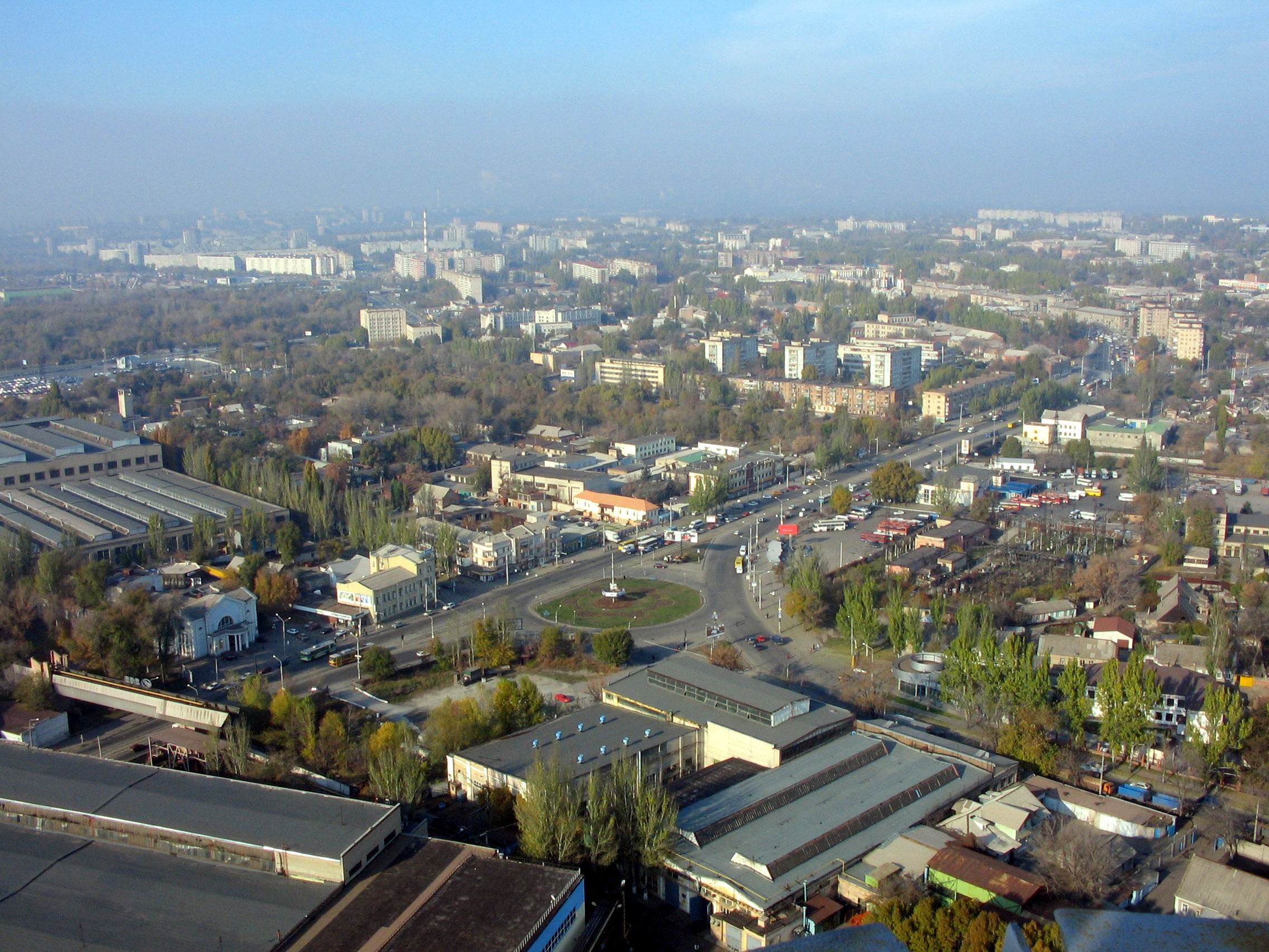 Zaporizhia